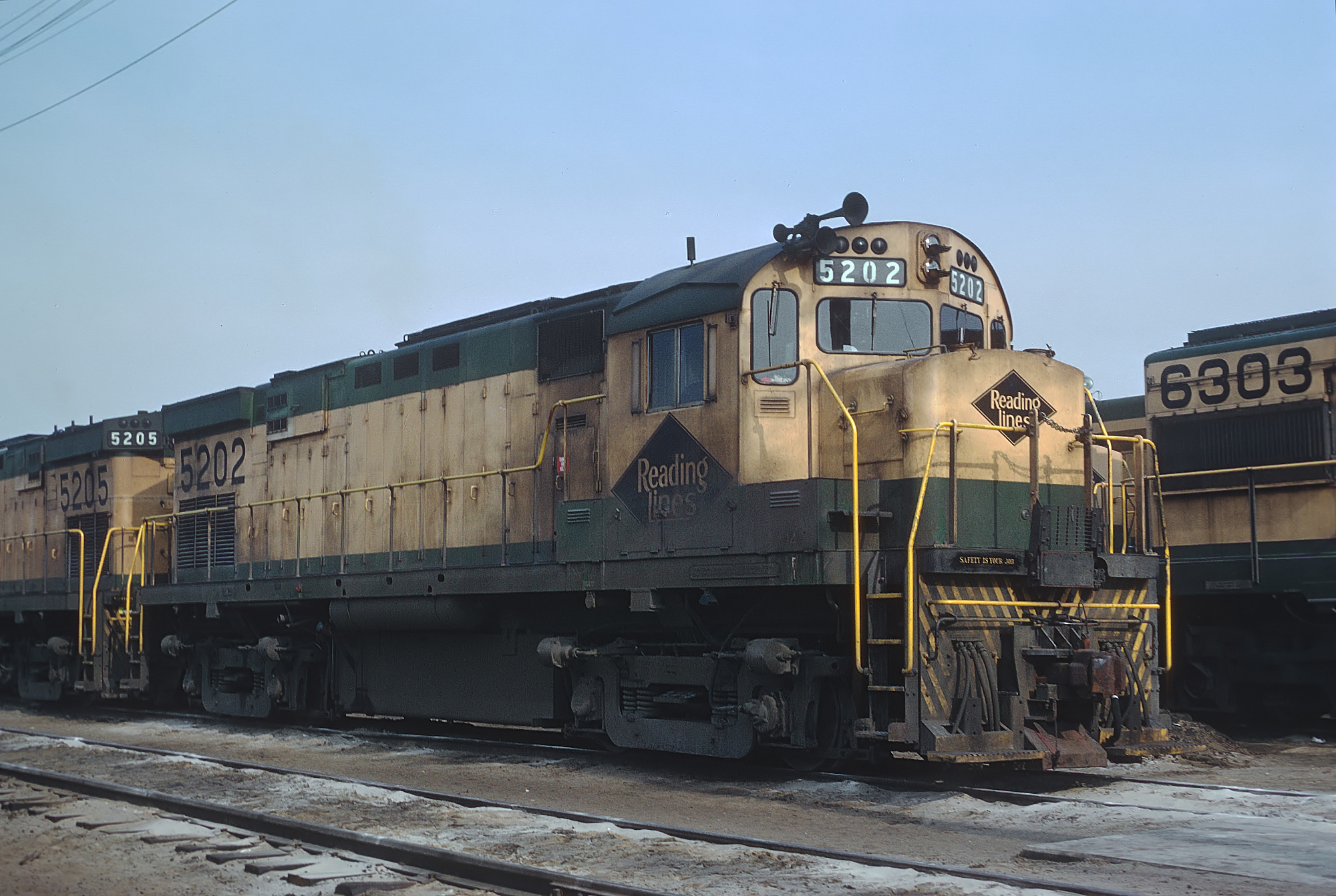 Photo by Roger Puta